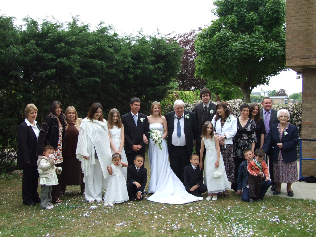 A photograph taken at my cousin's wedding on May 5th.